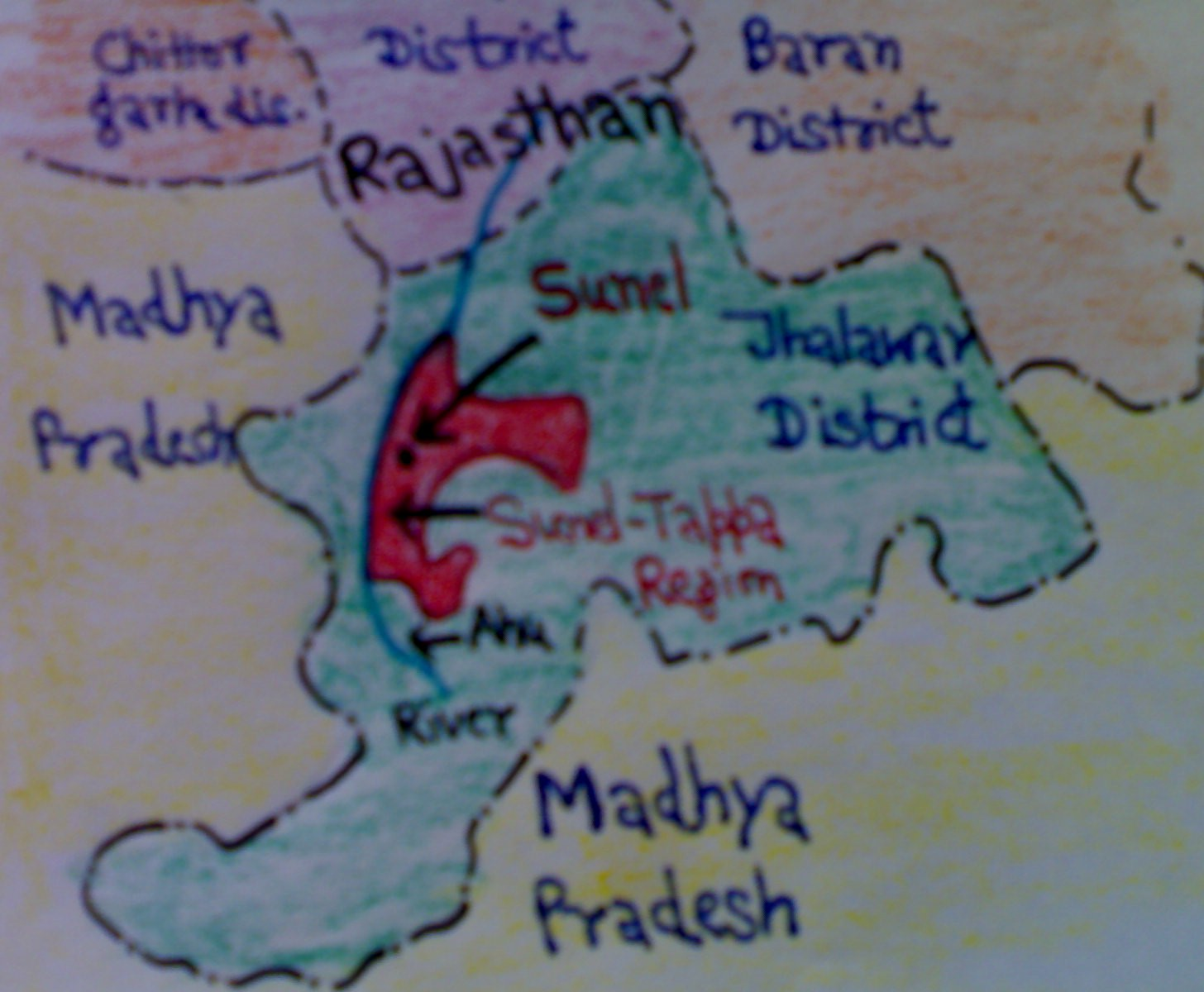 I Shivender Singh(Wiki user:Shemaroo) have created this file.It is a drawing by me.It shows location of Sunel-Tappa region.It is shown by Red colour. and phone: 09829800543 Shemaroo (talk) 10:50, 8 October 2011 (UTC)